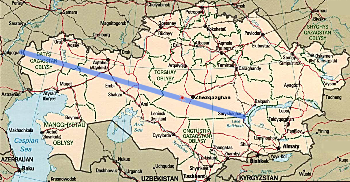 Map of Kazakhstan originally produced by U.S. Central Intelligence Agency. I have modified the map to illustrate the Wikipedia article on the Project K high-altitude nuclear tests by the Soviet Union.